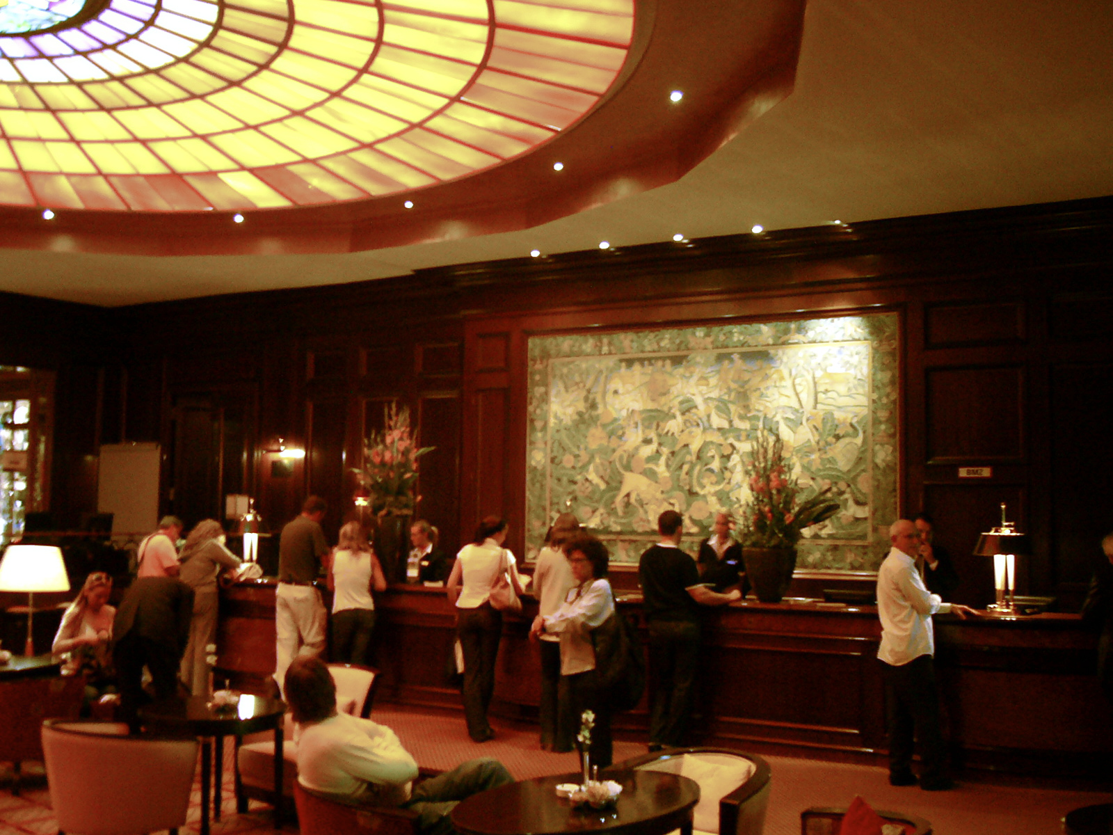 Front desk at Hotel Kempinski "Vier Jahreszeiten" (Munich, Germany)